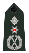 Epaulette of the police service of northern ireland. Rank: chief constable